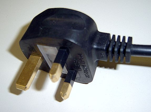 British electrical contour plug